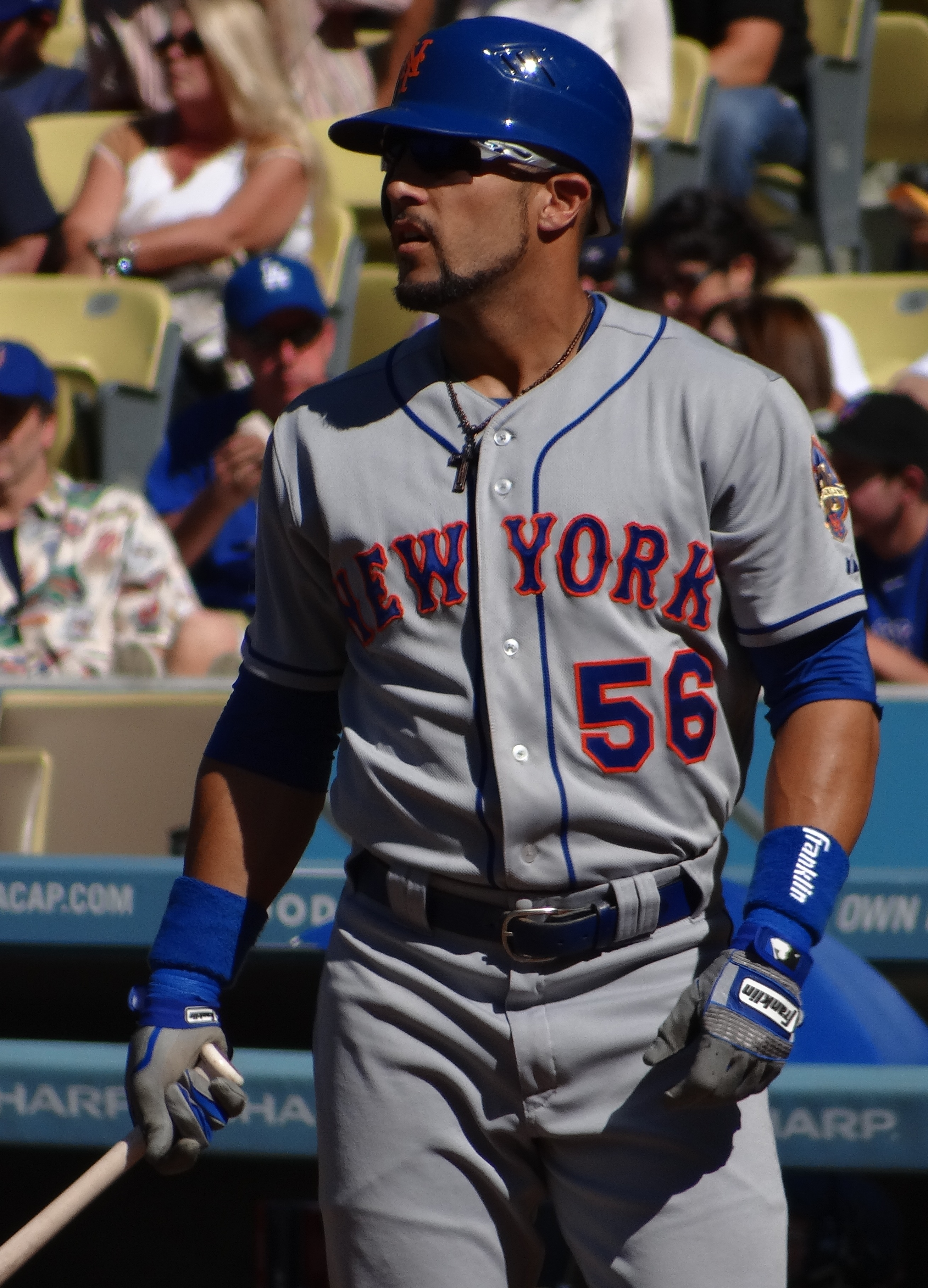 Photograph of Andrés Torres of the New York Mets batting against the Los Angeles Dodgers at Dodger Stadium, June 30, 2012